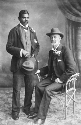 Frank Hann with his native assistant Talbot, photograph circa 1910. The original photograph is held by the State Library of Western Australia. A digital image of the photograph was created by the State Library of Western Australia and is available from the Library Information Service of Western Australia (LISWA) website. The LISWA image includes an assertion of copyright 2001, but this assertion is incorrect: the image is in the public domain under both Australian and US copyright law. This digital image is a cropped version of the LISWA digital image that eliminates the incorrect copyright notice.